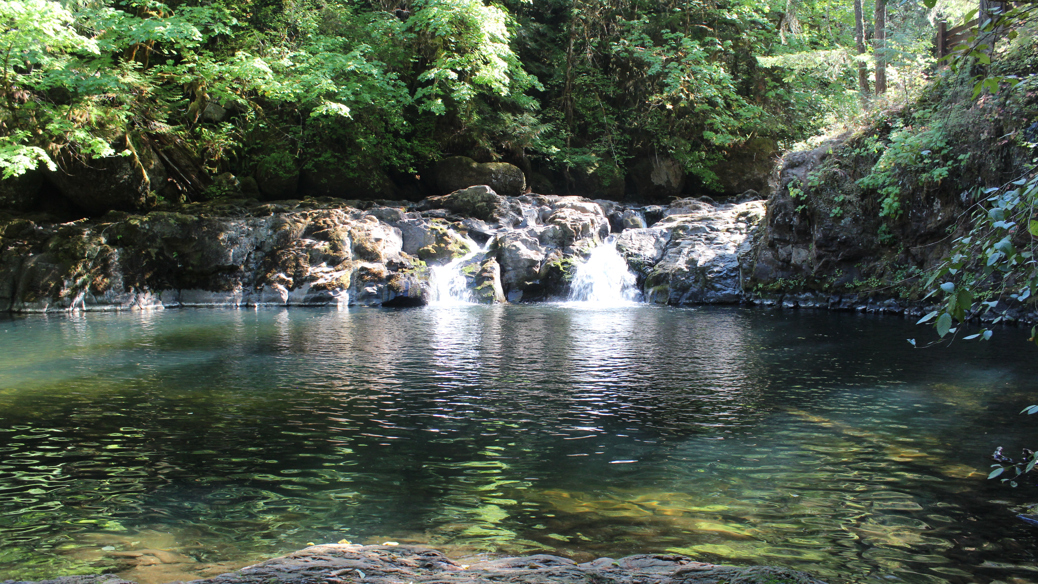 Away from the busier North Umpqua Corridor, Cavitt Creek Falls Recreation Site is a favorite of locals in the Roseburg area. Surrounded by a forest of fir, maple and cedar trees, the swimming hole at the base of a 6- foot-tall waterfall on Cavitt Creek is a welcome discovery on a hot day. Salmon and Steelhead leap the falls from September through April. Cavitt Creek and Little River are open to trout fishing with artificial flies and lures only, from late May through mid-September. More information and how to visit: Photos/videos captured September, 2015.